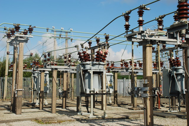 Is-orsaf Drydan Y Ffôr Electricity Sub-station The power supply line from SH4843 terminates here and supplies power to the whole of Llŷn.